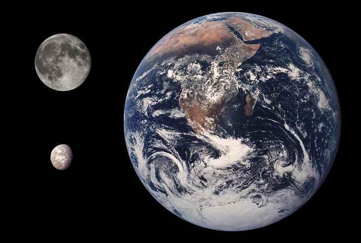 Diameter comparison of the Uranian moon Oberon, Moon, and Earth. Scale: Approximately 28.9 km per pixel.